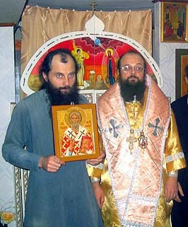 Foto in Borovichi